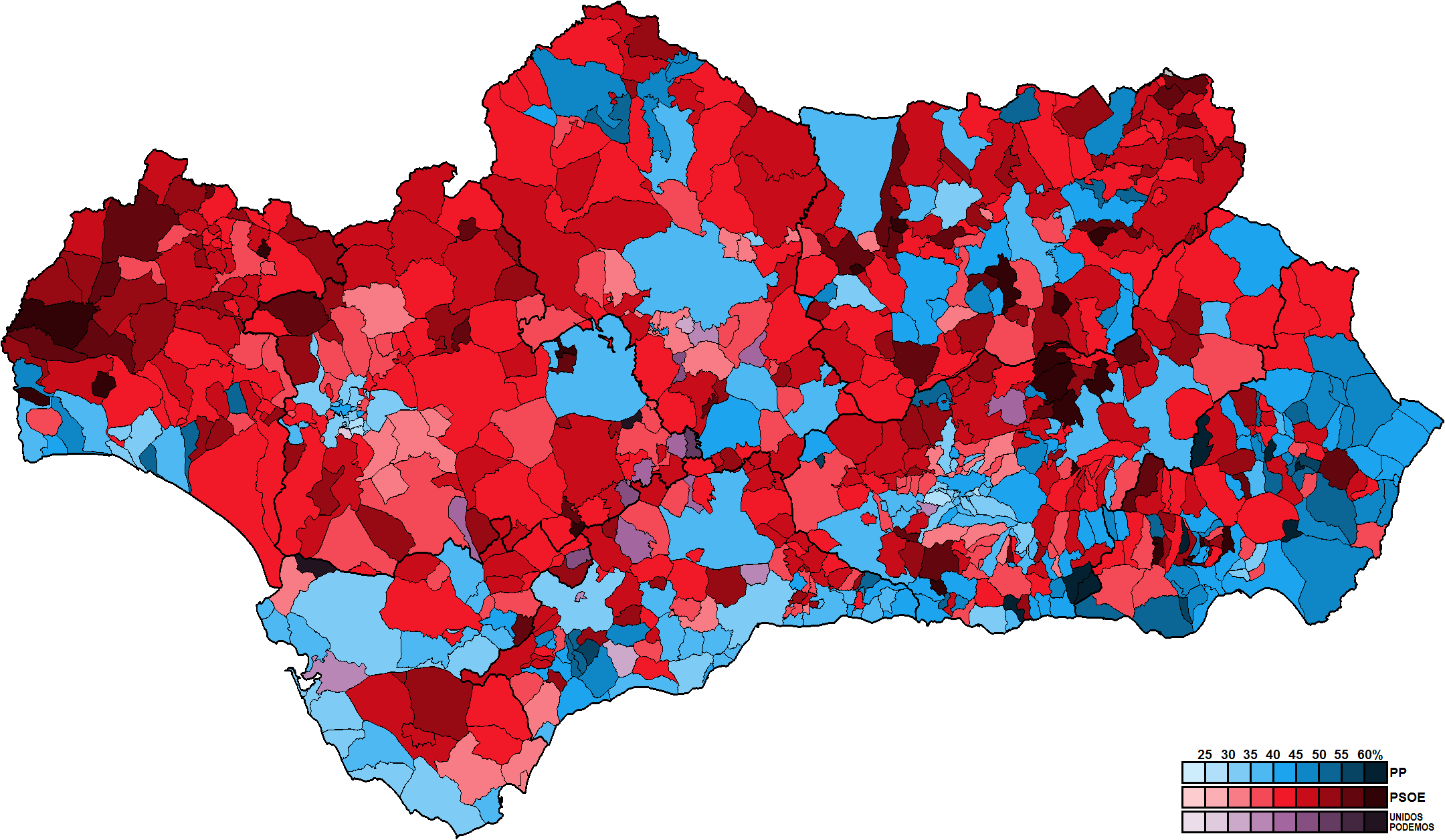 Most-voted party in Andalusia municipalities, showing vote share obtained, in the Spanish general election, 2016.